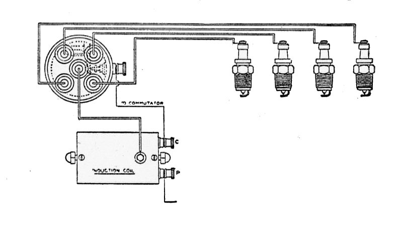 Induction coil and distributor ignition circuit (Rankin Kennedy, Modern Engines, Vol II).jpg